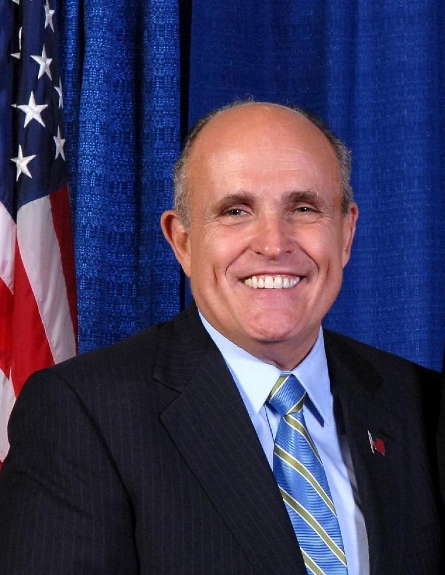 Picture of Rudy Giuliani